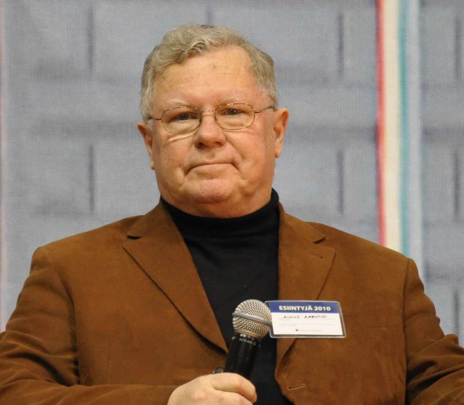 Finnish jurisprudent and writer Aulis Aarnio at the Tampere Book Fair 2010.